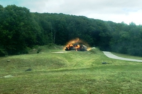 A Bangalore torpedo explodes against a mine-wire obstacle at West Point, N.Y., June 26, 2014, during demolition training for soldiers of Company A, 3rd Battalion, 15th Infantry Regiment, 4th Infantry Brigade Combat Team, 3rd Infantry Division. The skills learned enable the Fort Stewart, Ga., soldiers’ abilities to conduct battle drills, like breach of a mined wire obstacle, during platoon live-fire exercises slated for the fall.